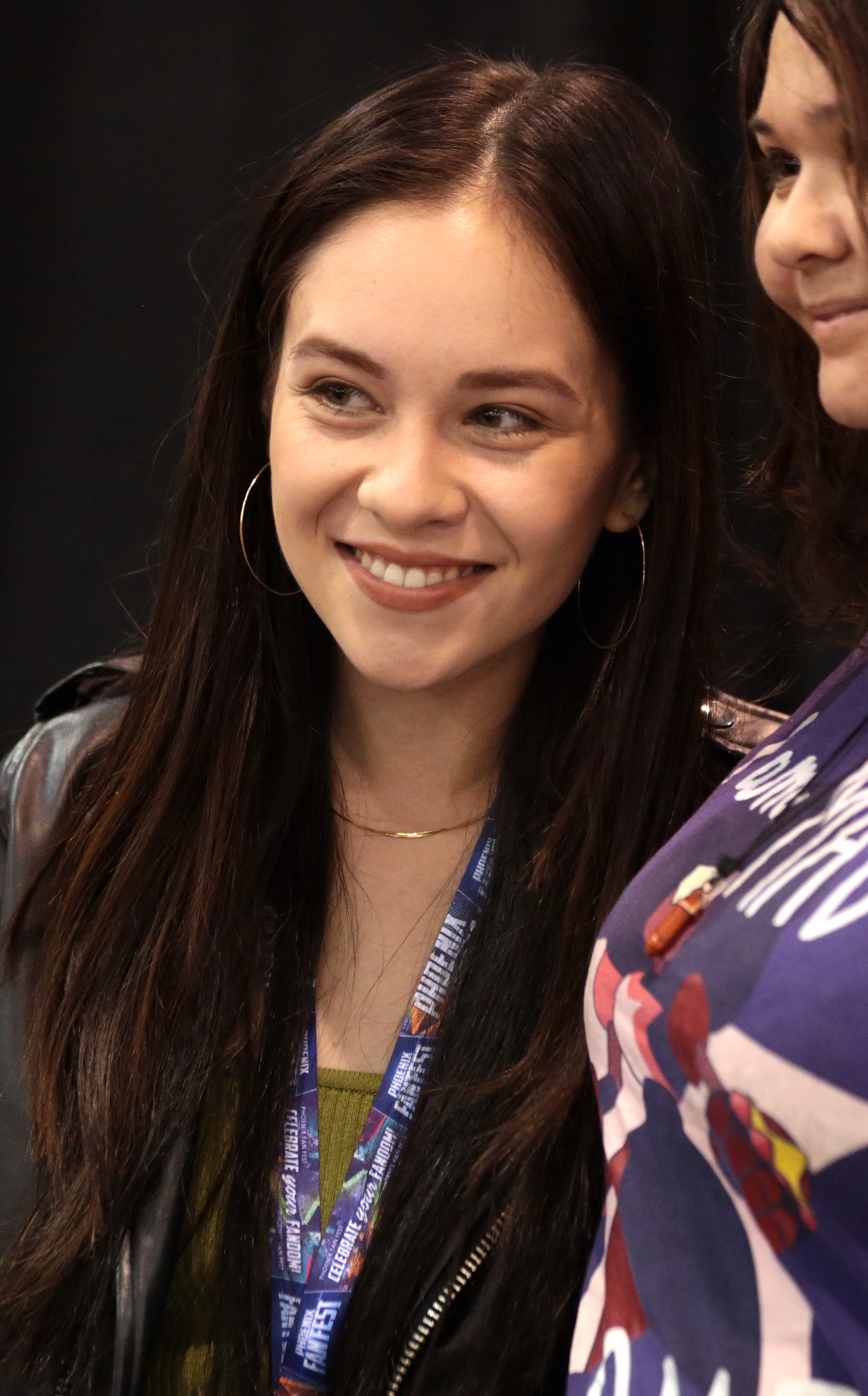 Grace Rolek speaking at an event in Phoenix, Arizona.